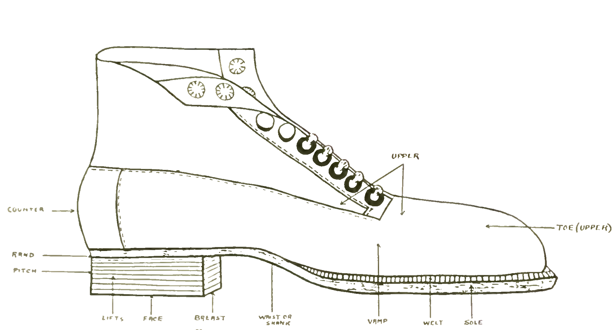 External parts of the shoe (US Navy boot, 1920)